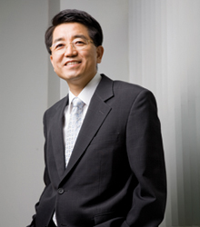 picture of my professor